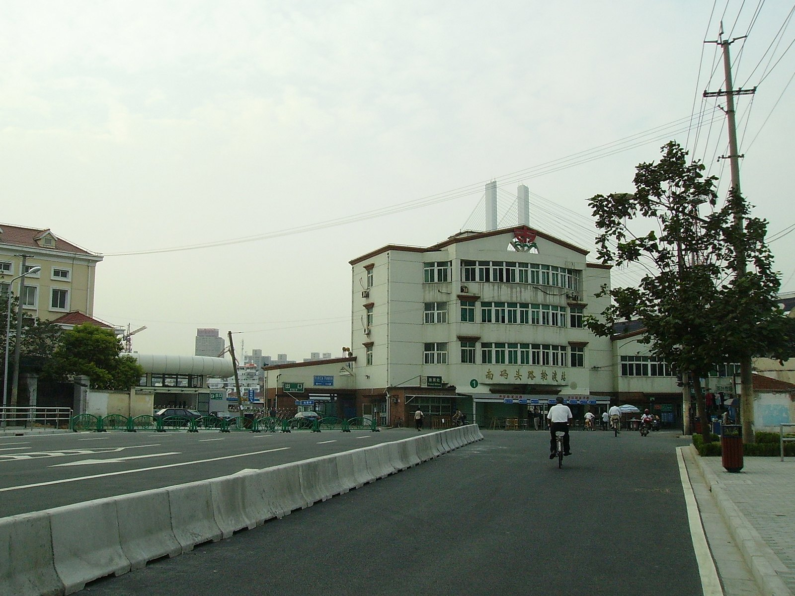 Nanmatou Rd Ferry